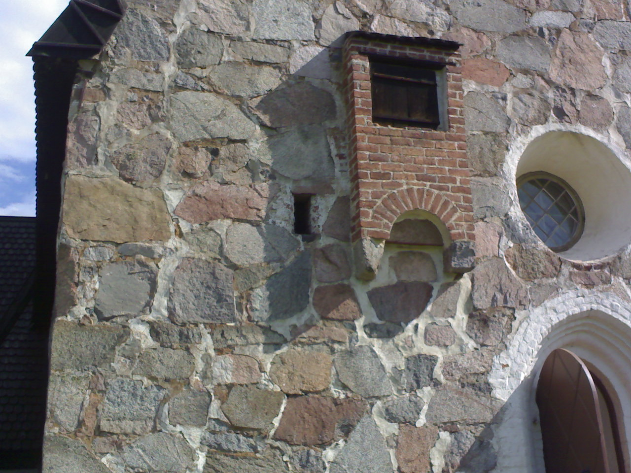 An exterior pulpit of the Vanaja church in Hämeenlinna, Finland